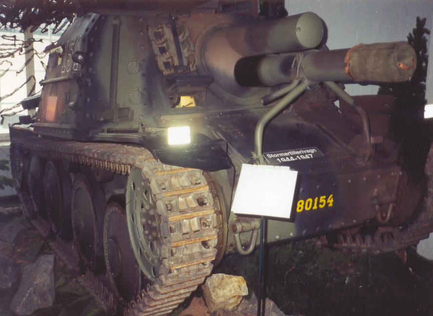 Scania-Vabis SAVm43 close-support artillery vehicle